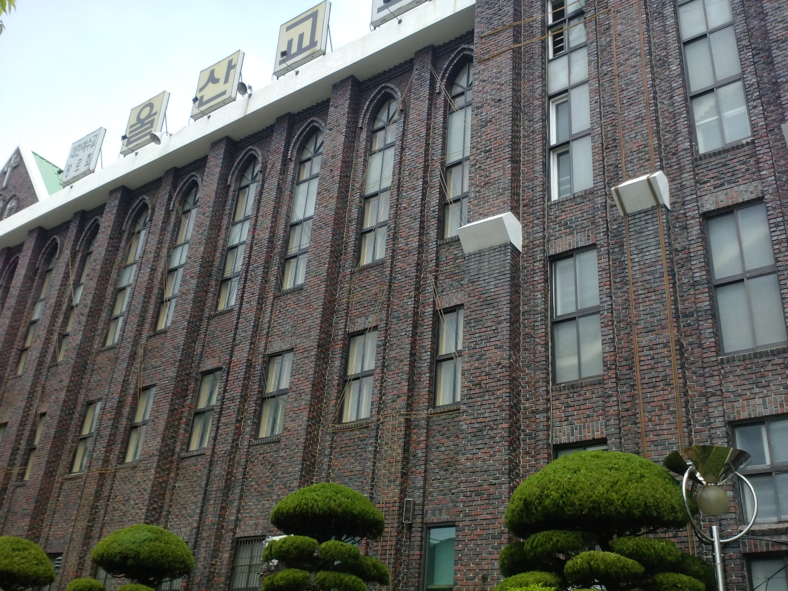 Ulsan church